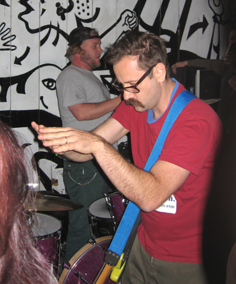 American painter Chris Johanson playing a Tina Age 13 reunion concert at the Clarion Alley Block Party, San Francisco, CA